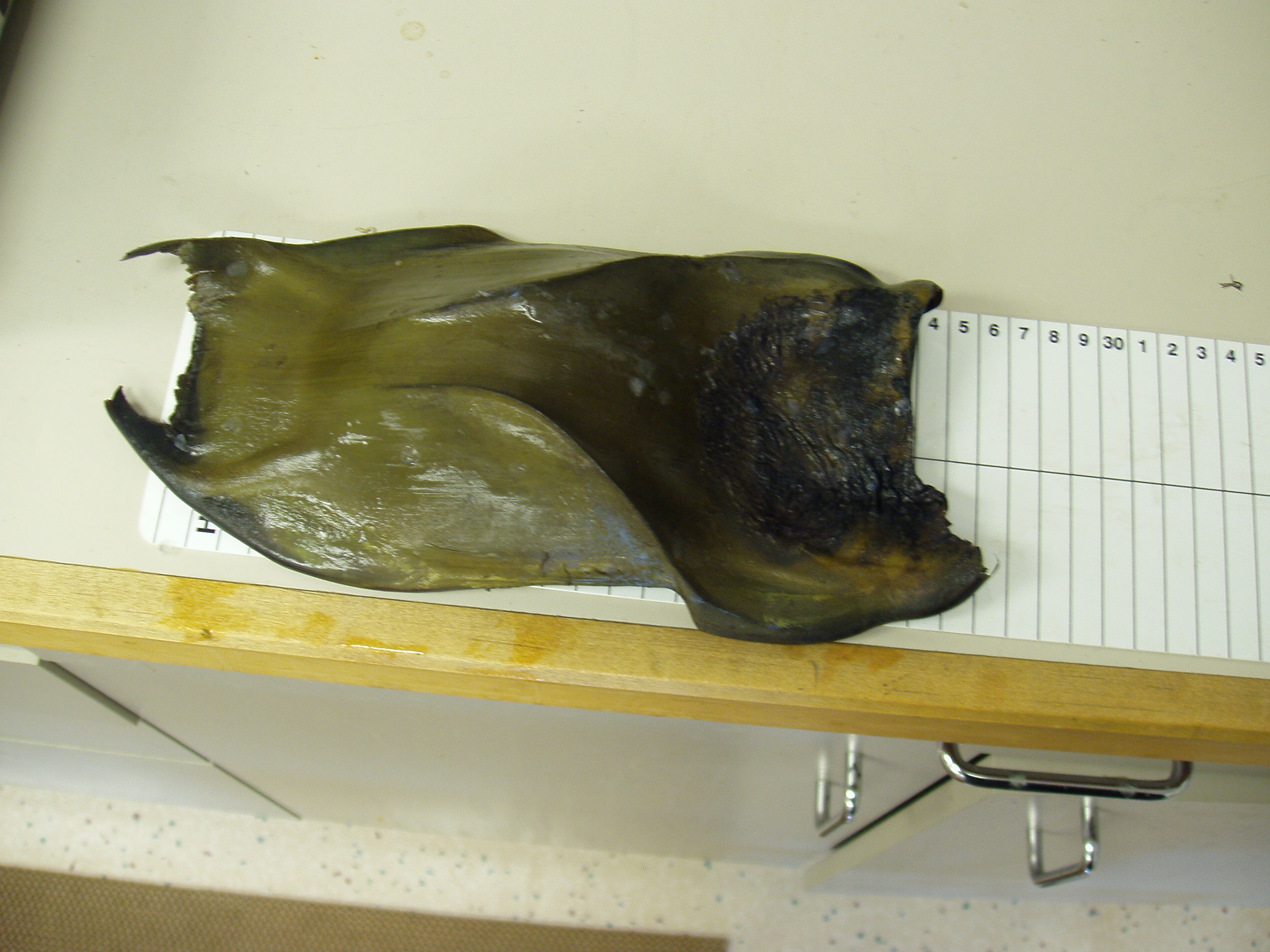 Fresh egg case belonging to the big skate species.